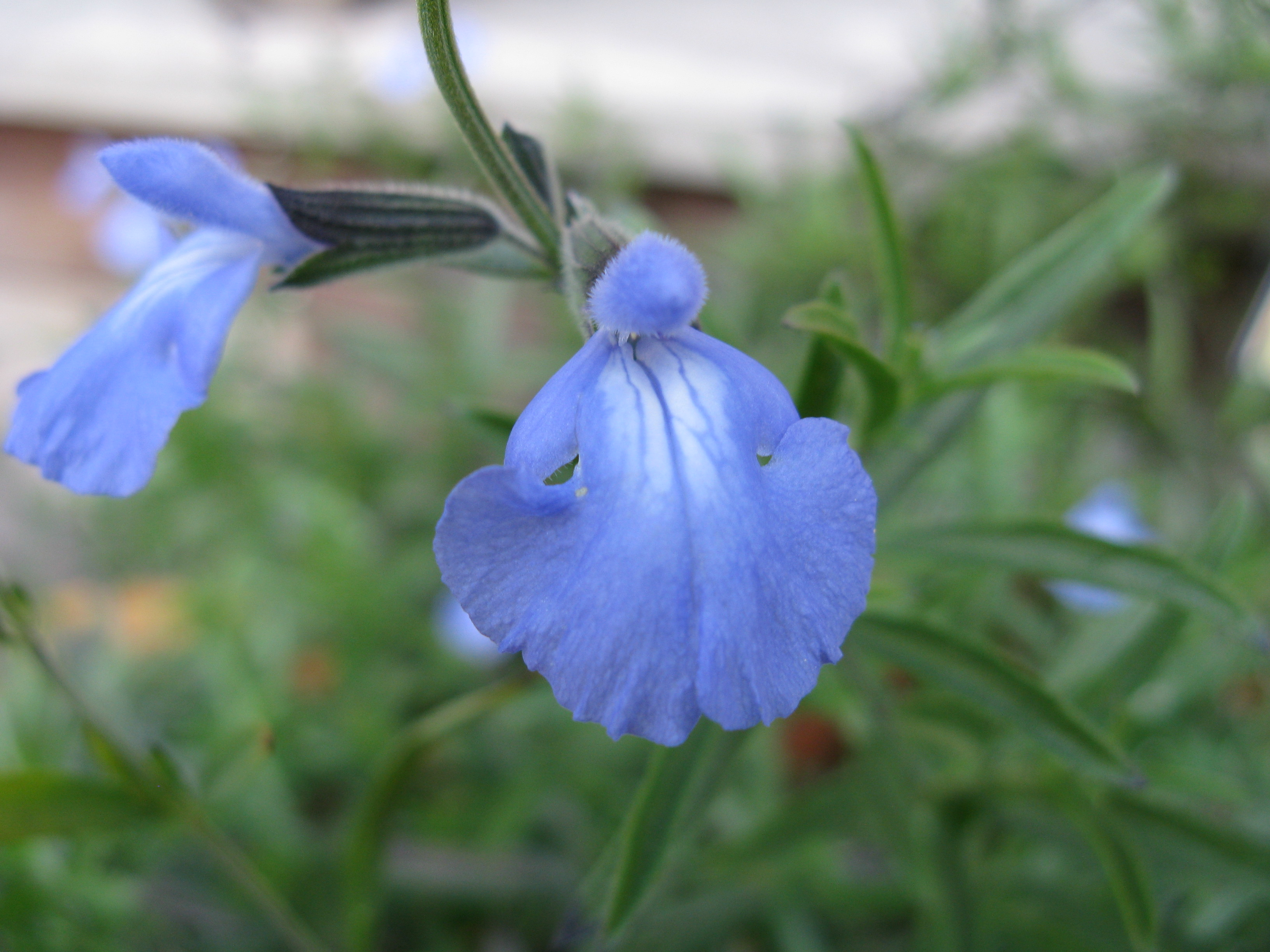 Scientific name Salvia_azurea Place:Osaka Prefectural Flower Garden,Osaka,Japan